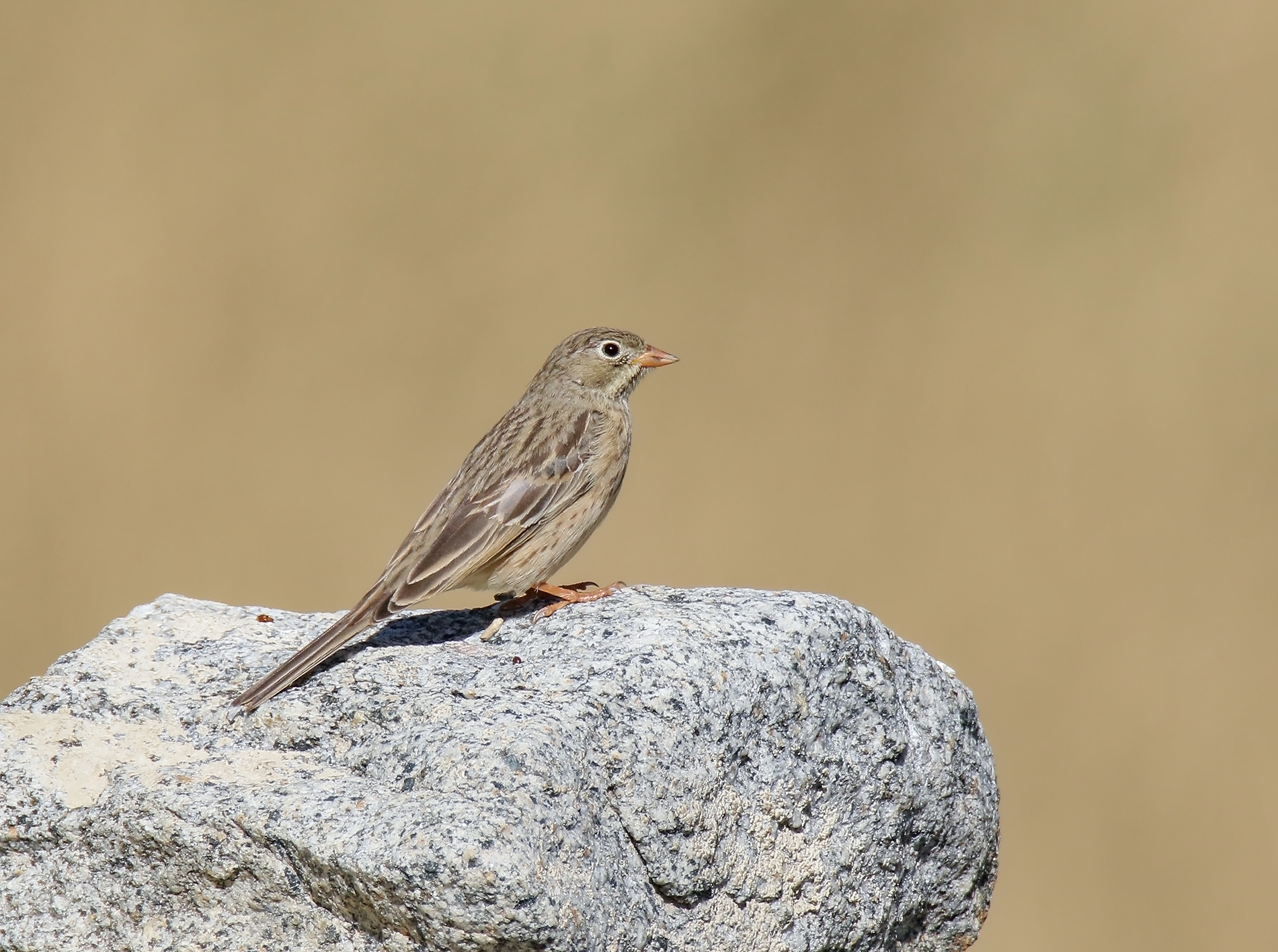 Grey-necked Bunting (Emberiza buchanani) captured at Borit, Gojal, Gilgit-Baltistan, Pakistan with Canon EOS 7D Mark II